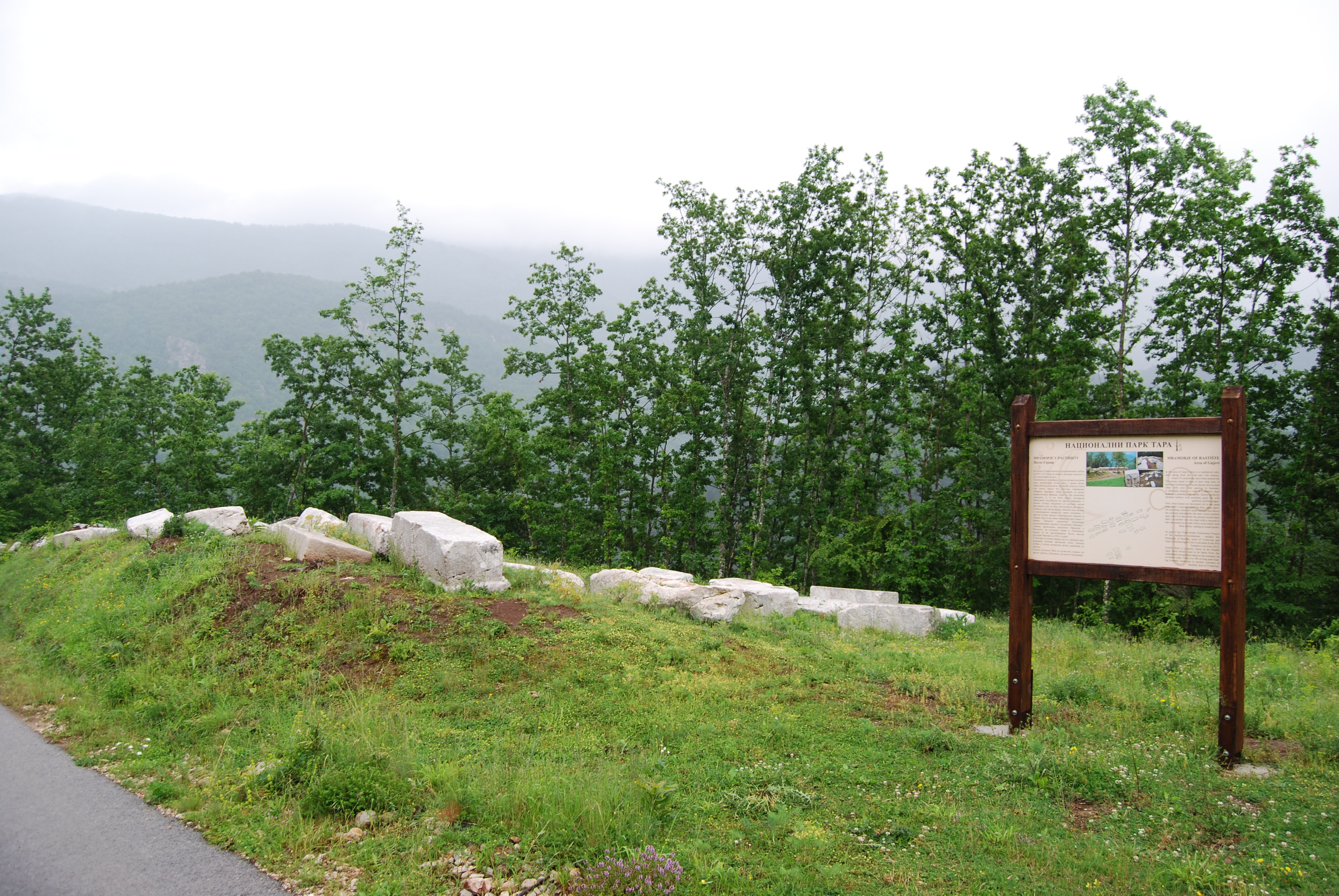 Archeological site Mramorje in Rastište